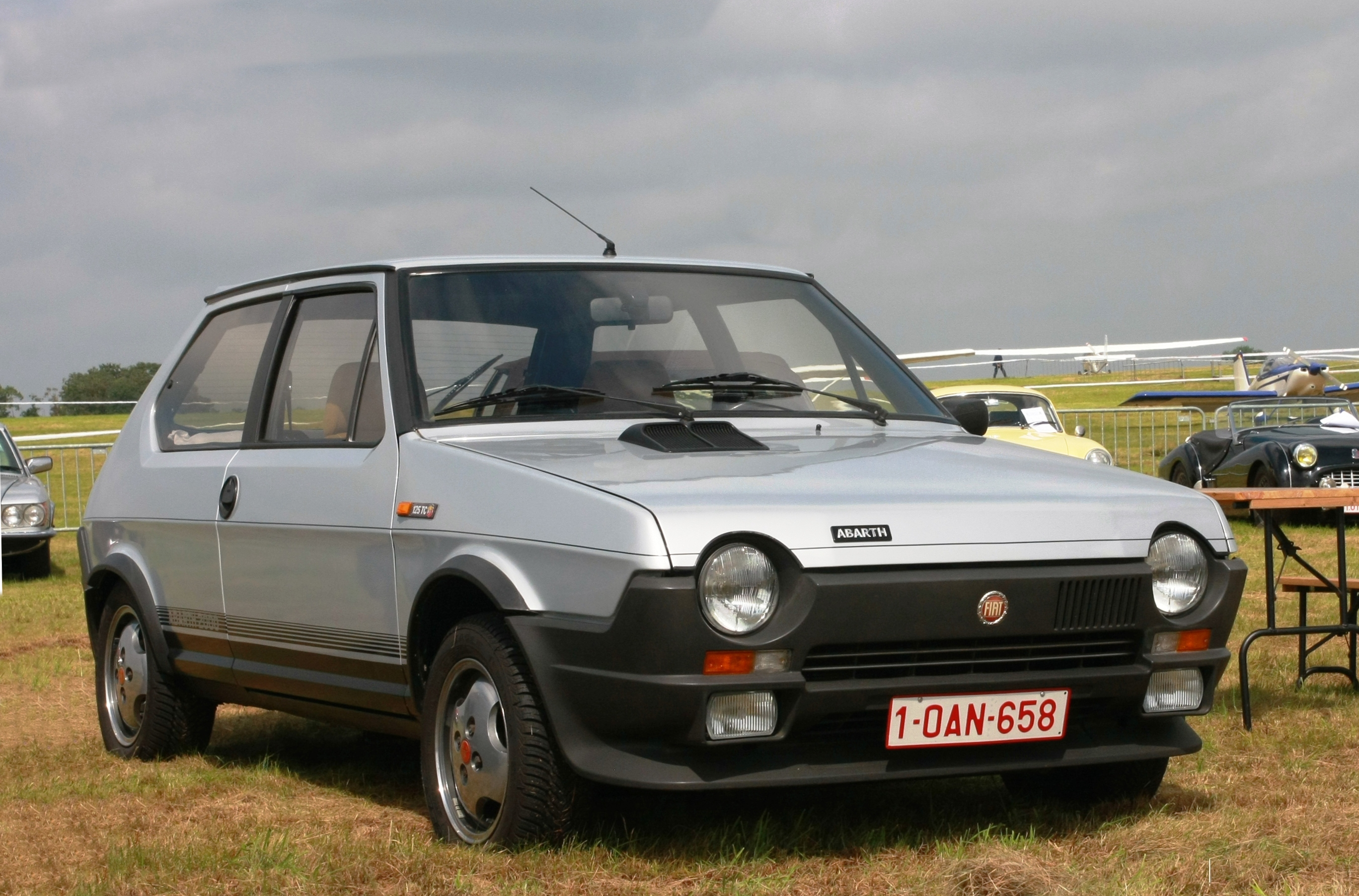 Fiat Ritmo Abarth exhibited at Schaffen-Diest Fly-drive 2016